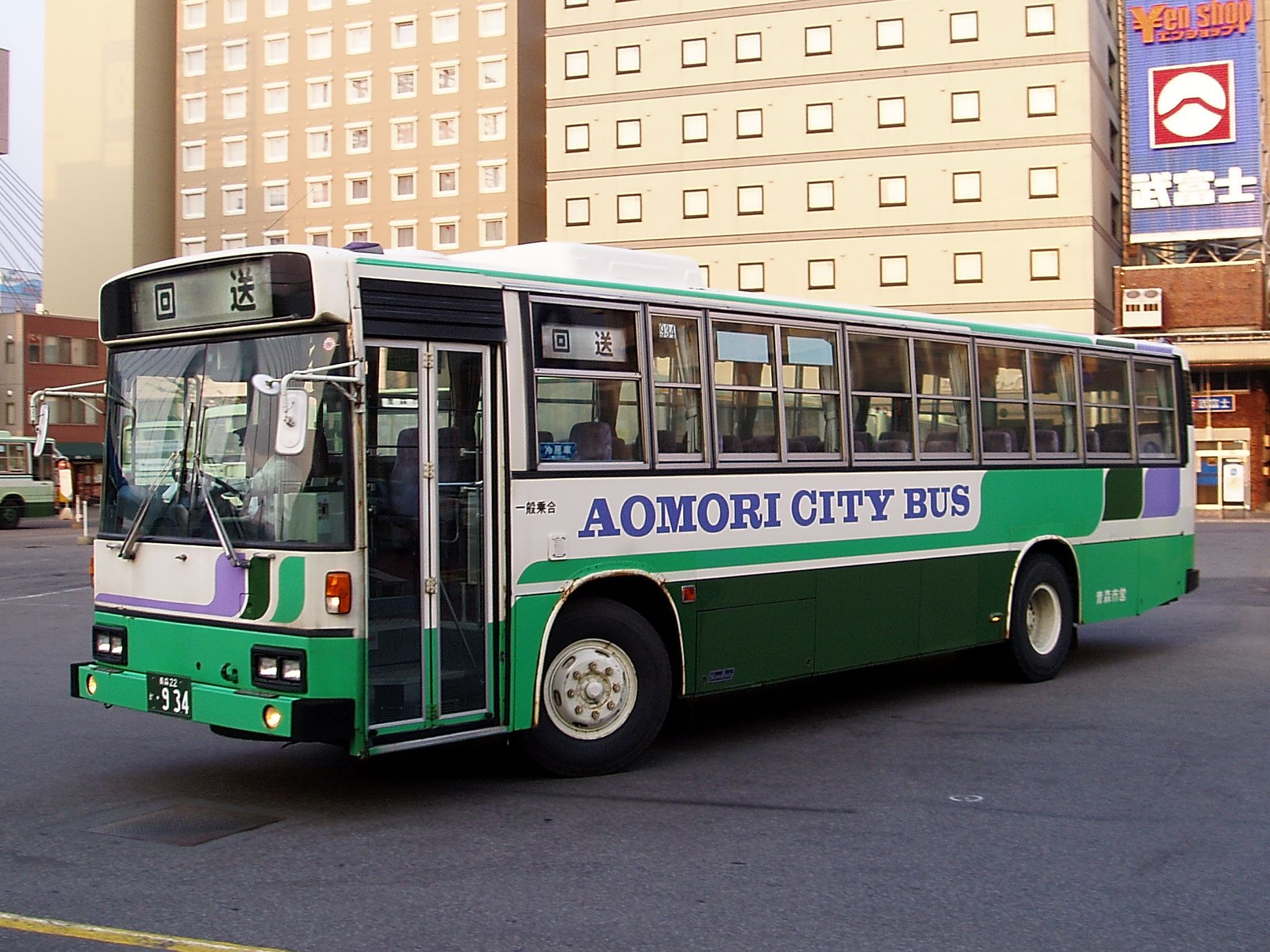 Aomori City Bus Hino U-HU3KMAA at Aomori Sta.